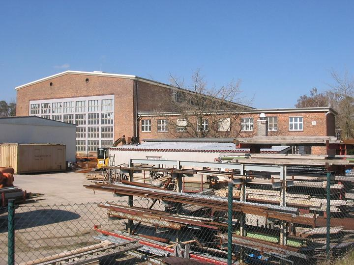 Production halls of the former Industrial Association for Vehicle Construction (IFA) in todays Ludwigsfelde’s industrial park. Ludwigsfelde is a town in the district Teltow-Fläming, state Brandenburg, Germany.)